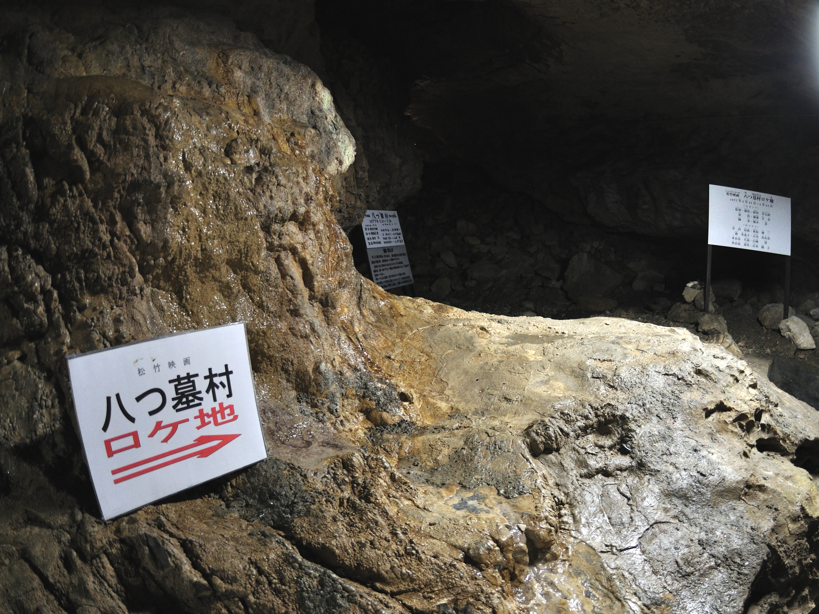 Photograph of Rokando Limestone Cave, Japanese movie "Yatsuhakamura" location site, in Sumita Town, Iwate Prefecture, Japan.